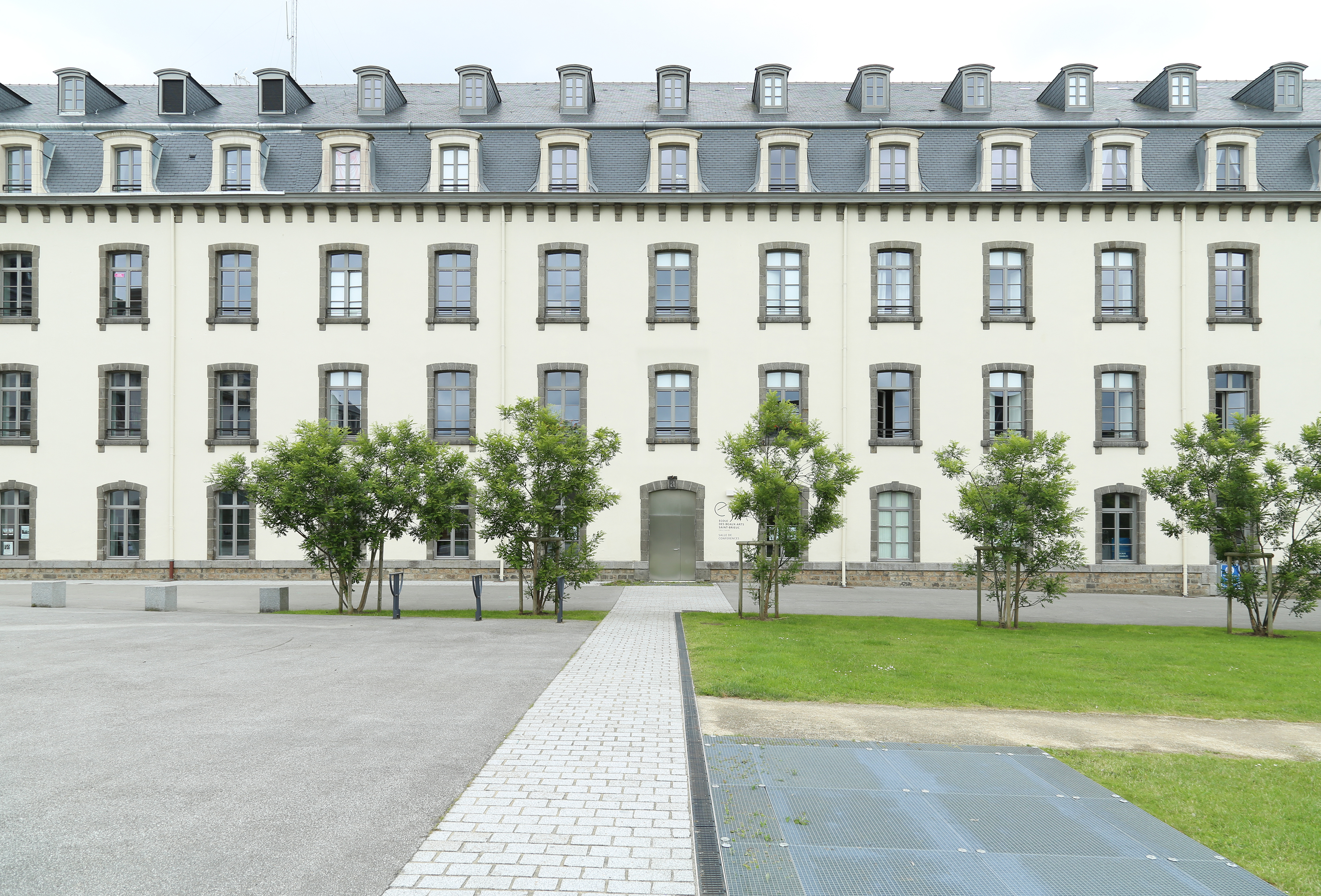 Saint-Brieuc Art school, front view of the restored building on Esplanade Georges Pompidou